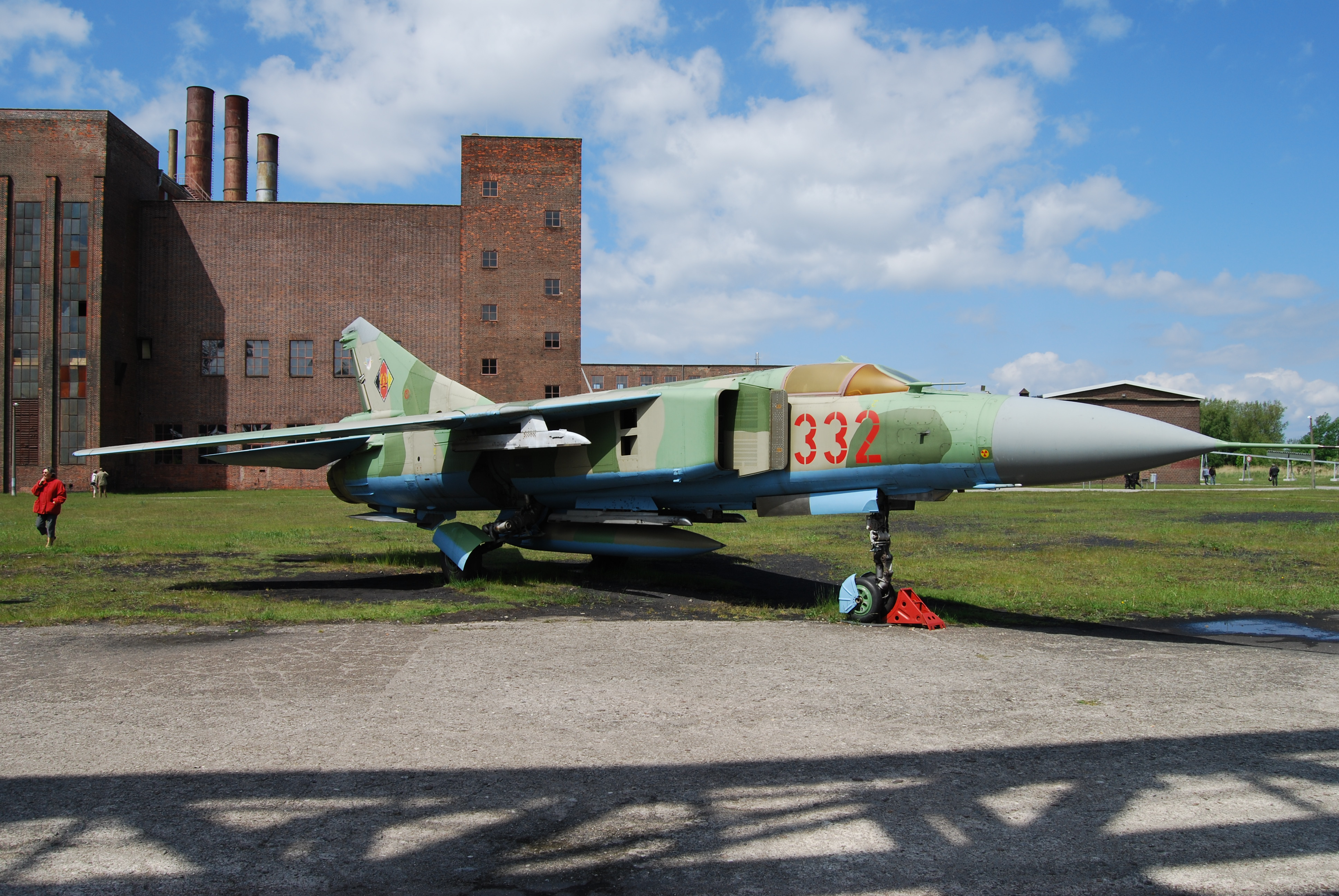 Mikoyan-Gurevich MiG-23MLA aircraft in Historisch-technisches Informationszentrum Peenemünde, Germany